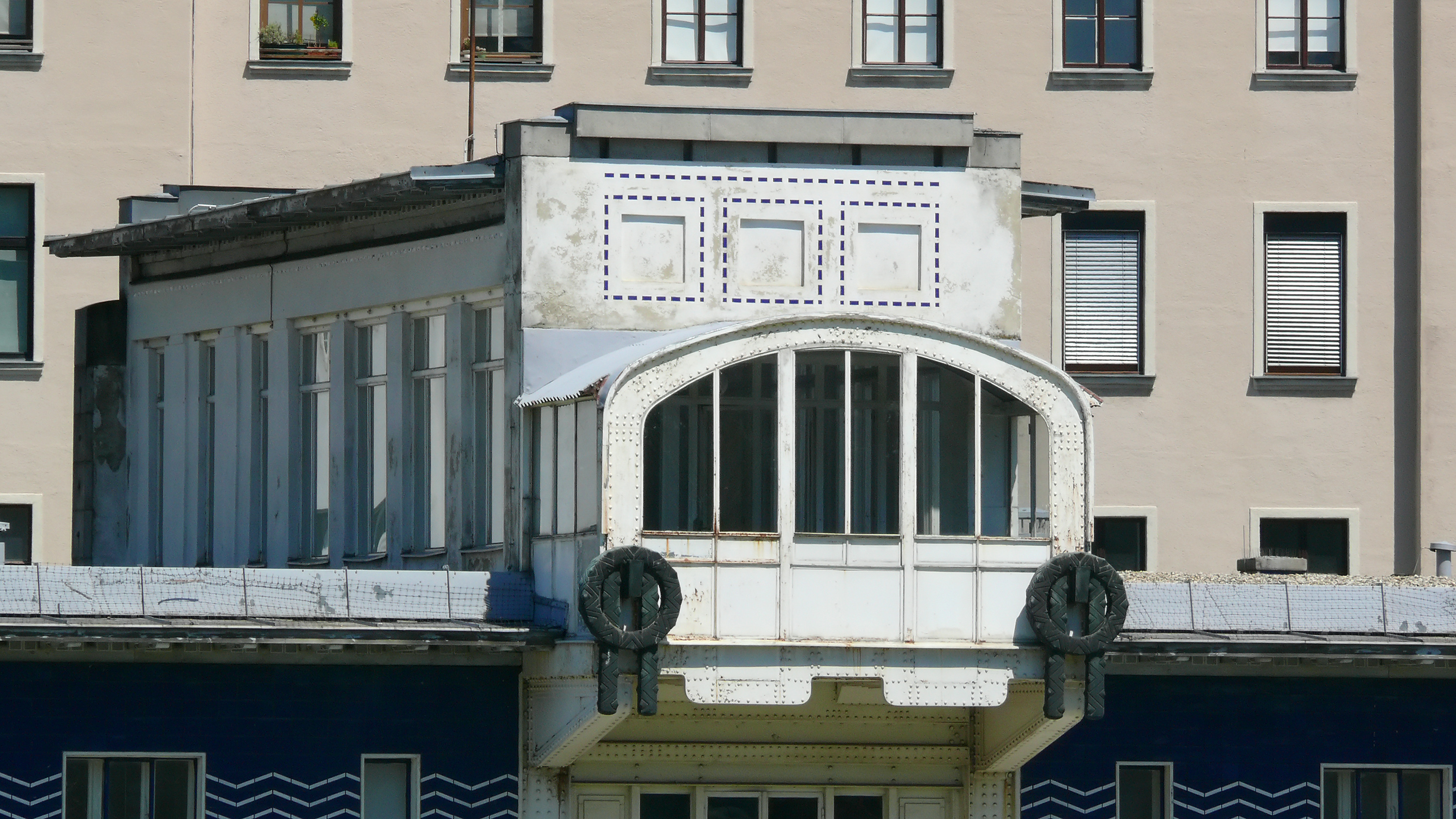 Schützenhaus at Donaukanal in Vienna Leopoldstadt